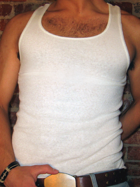 An example of an A-shirt.